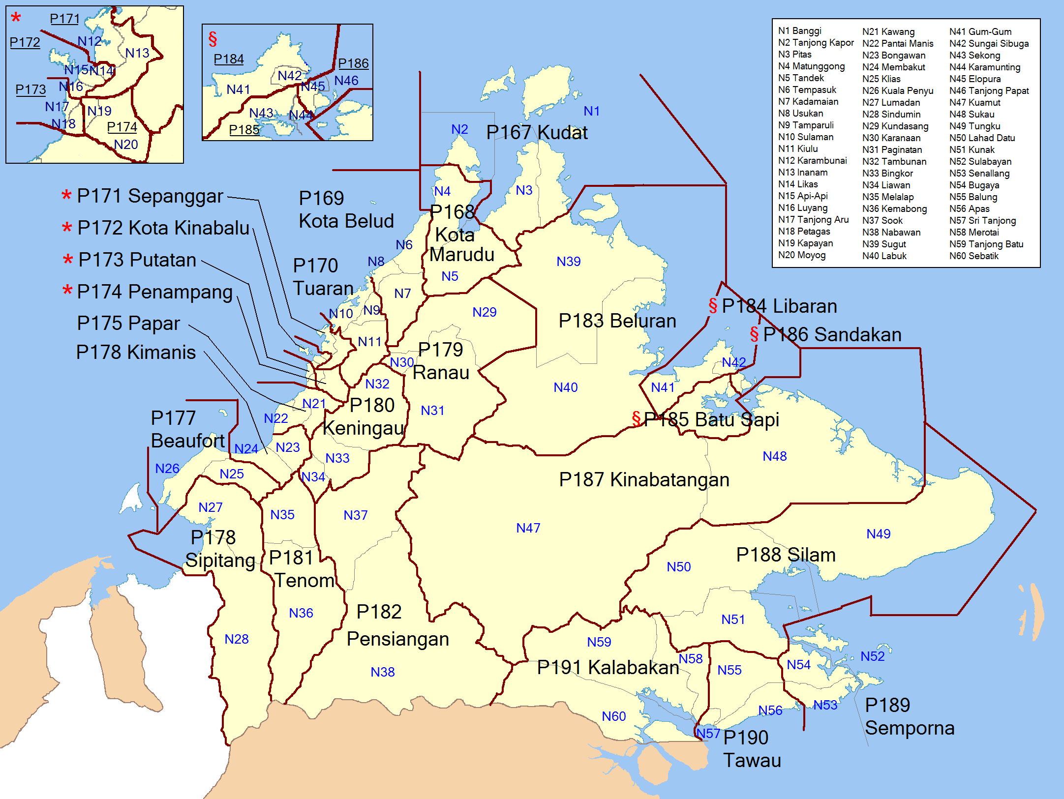 Map of Sabah electoral districts. Includes national (parliamentary) and state (state assembly) electorates. Parliamentary districts denoted by "P", while state assembly districts denoted by "N".